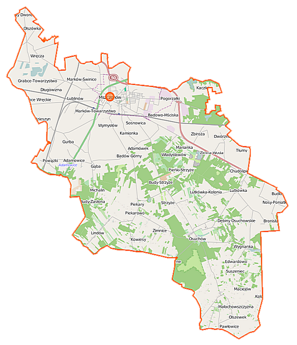 Map of Gmina Mszczonów, PolandThis map of Mszczonów (gmina) was created from OpenStreetMap project data, collected by the community. This map may be incomplete, and may contain errors. Don't rely solely on it for navigation.